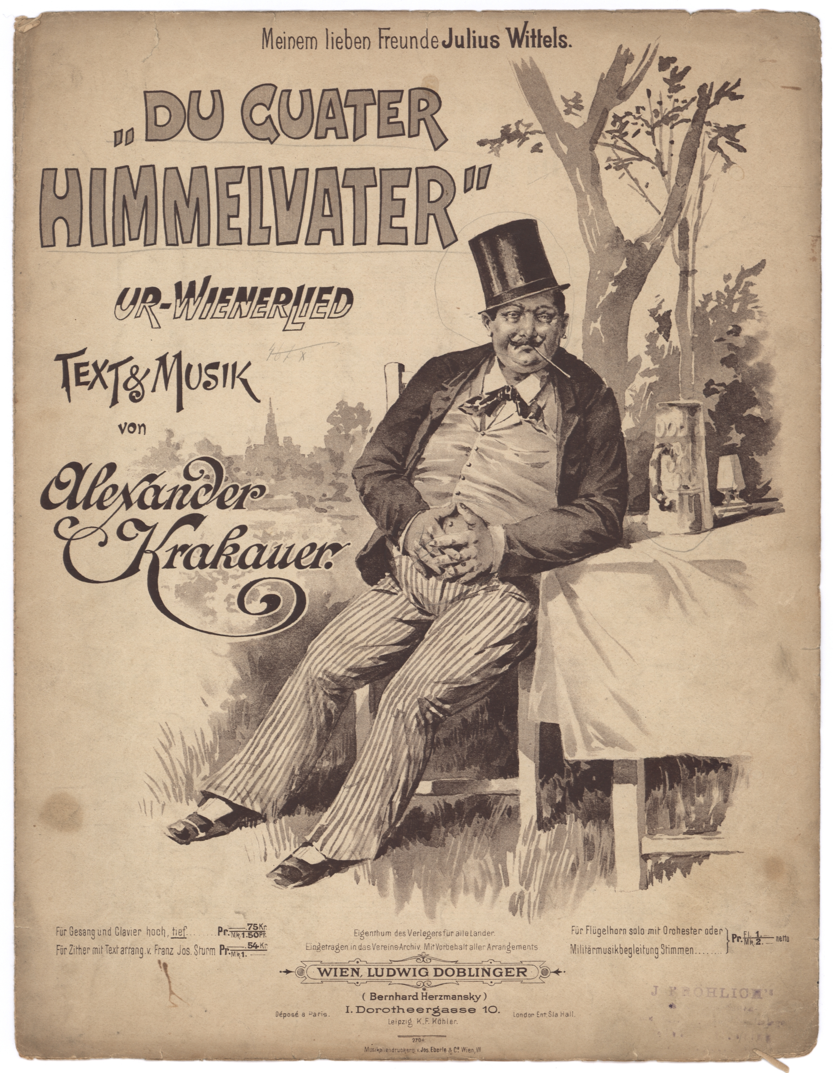 Alexander Krakauer: You good Sky Father, Viennese song. Published by Doblinger, Vienna; ca. 1900